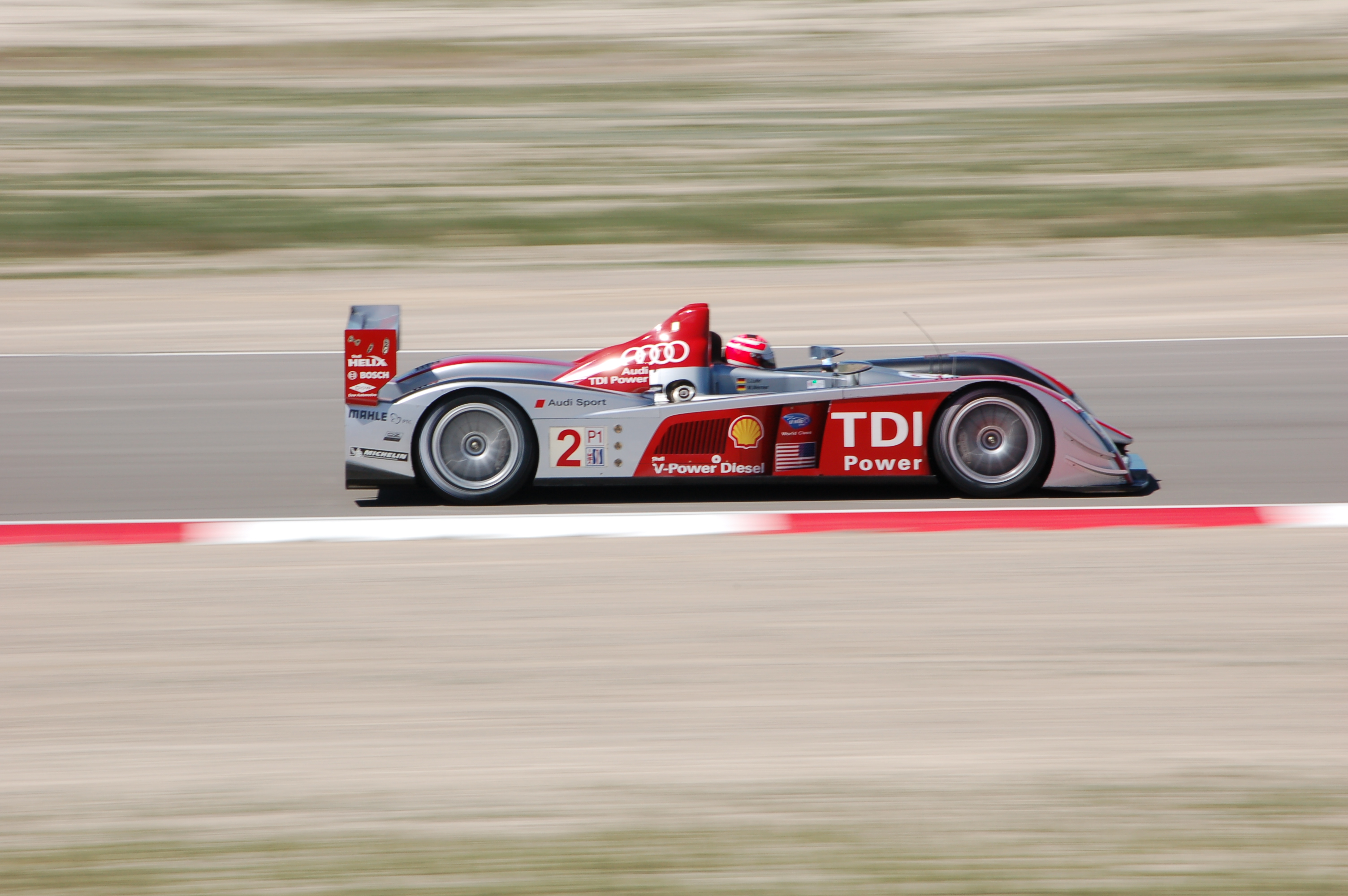 Audi Sport North America's Audi R10 TDI at the 2008 Utah Grand Prix.